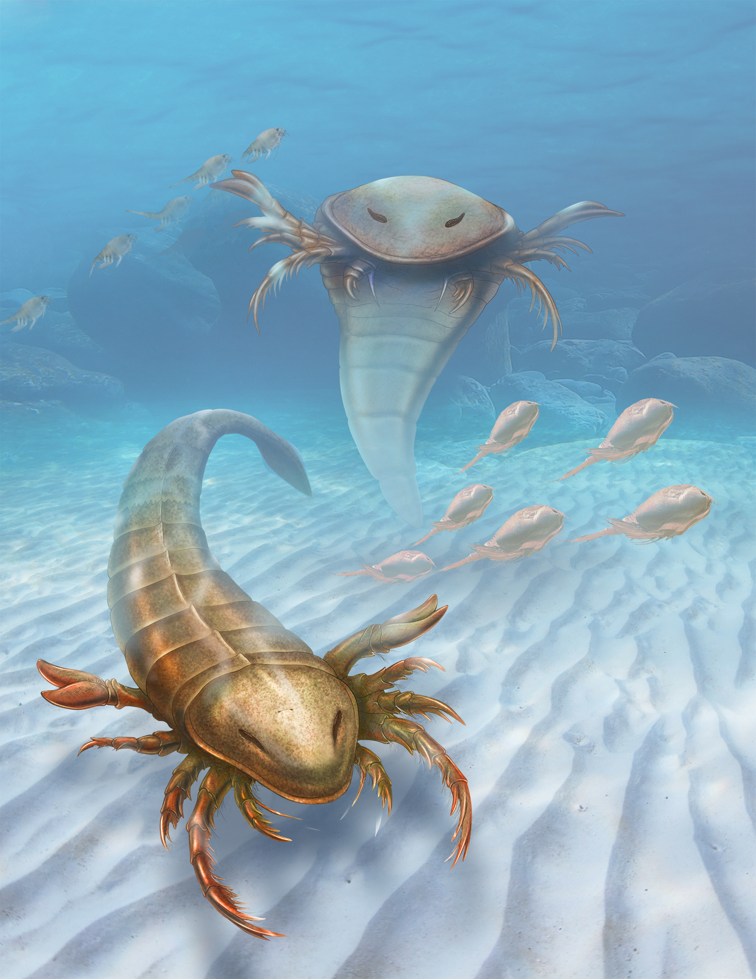 Pentecopterus sea scorpion. Pentecopterus lived 467 million years ago and could grow to nearly six feet, with a long head shield, a narrow body, and large, grasping limbs for trapping prey. It is the oldest described eurypterid — a group of aquatic arthropods that are related to modern spiders, lobsters, and ticks.